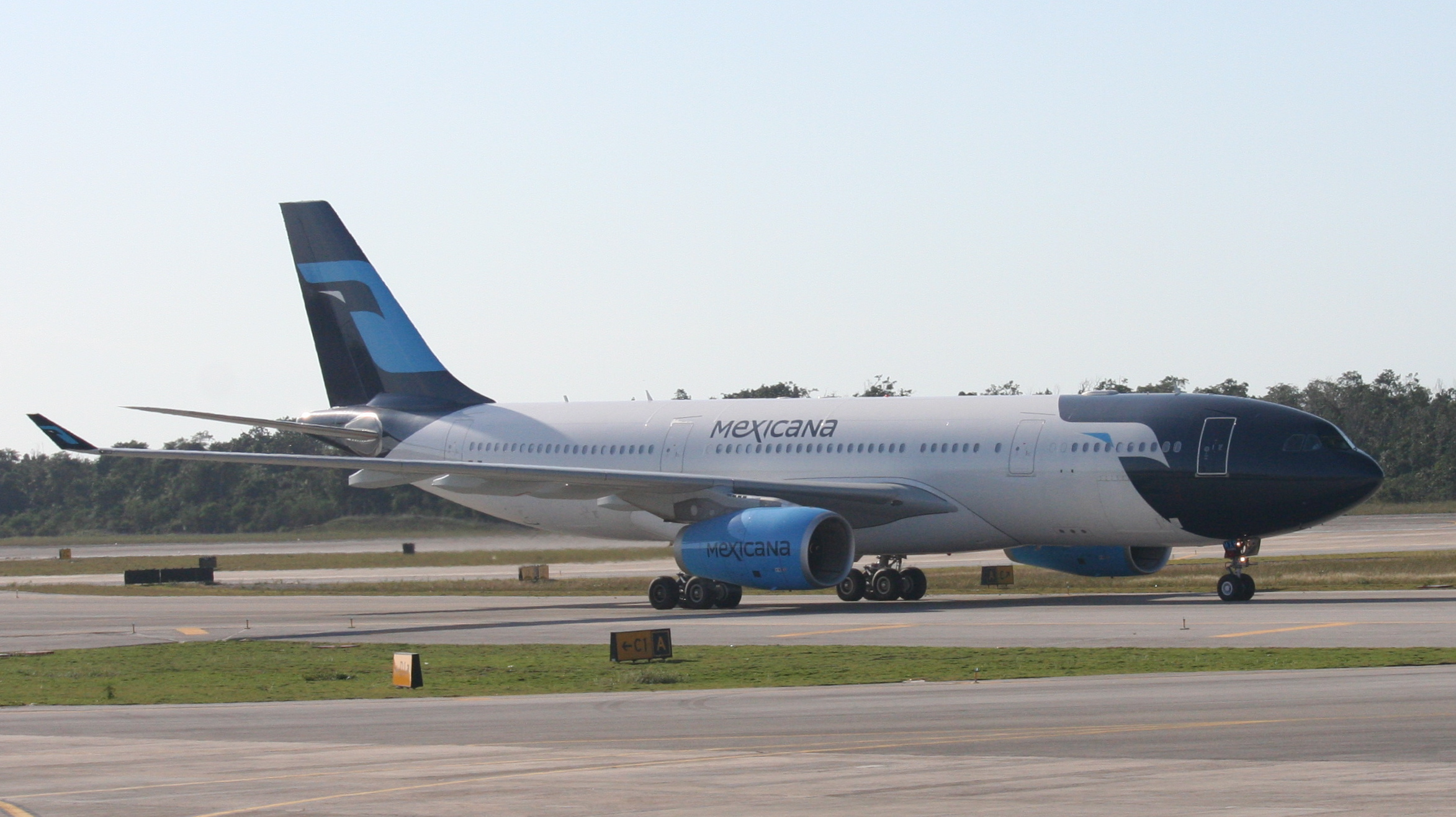 First Airbus 330 of Mexicana de Aviacion, just after landing on Can-Cun IAP.